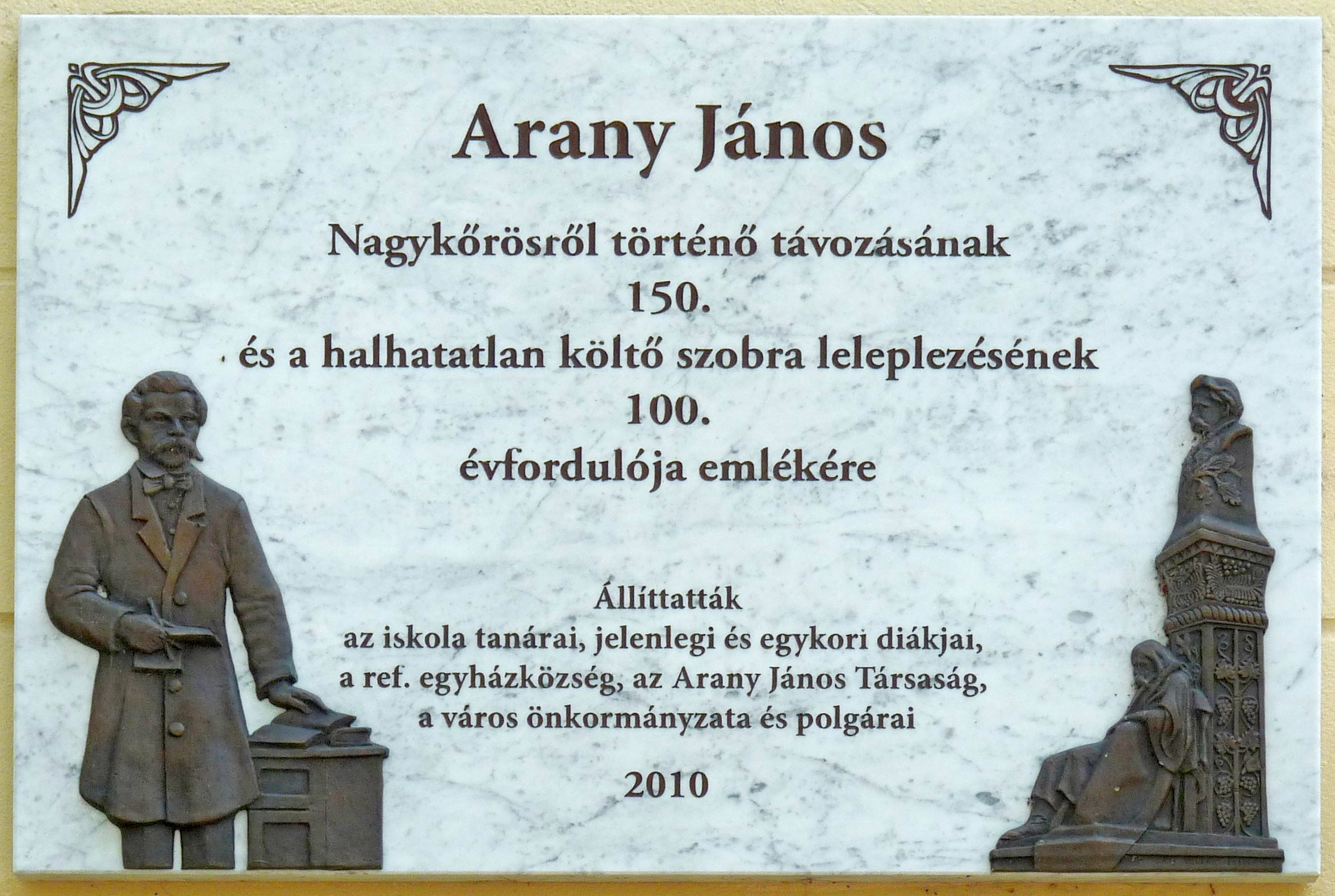 Commemorative plaque to Mr. János Arany (1817–1882) Hungarian journalist, writer, poet, and translator, fixed on the front of the gymnasium bearing his name. The bronze reliefs were sculpted by Mr. Zoltán Sári in 2010. (Nagykőrös, Hősök Square Nr 6)